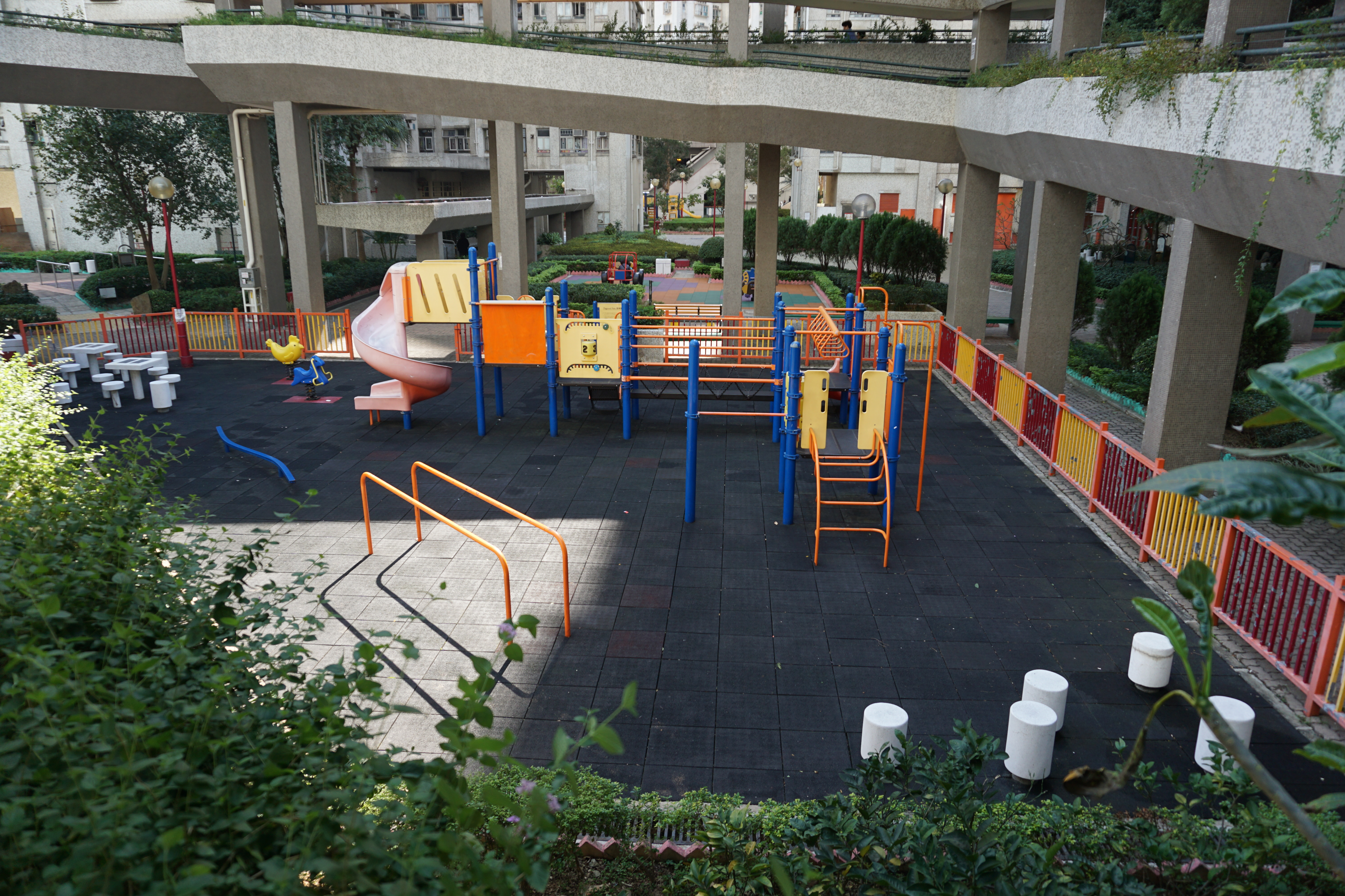 Siu Hei Court in Tuen Mun, Hong Kong.